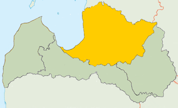 Latvia map - Vidzeme